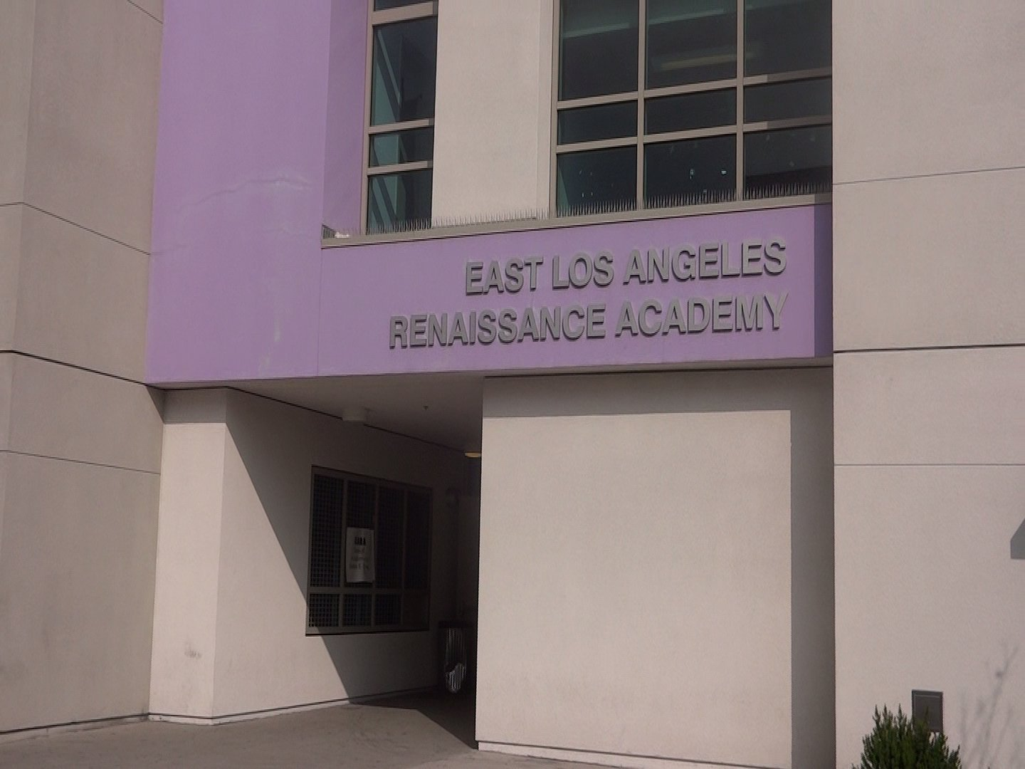 East Los Angeles Renaissance Academy side entrance.